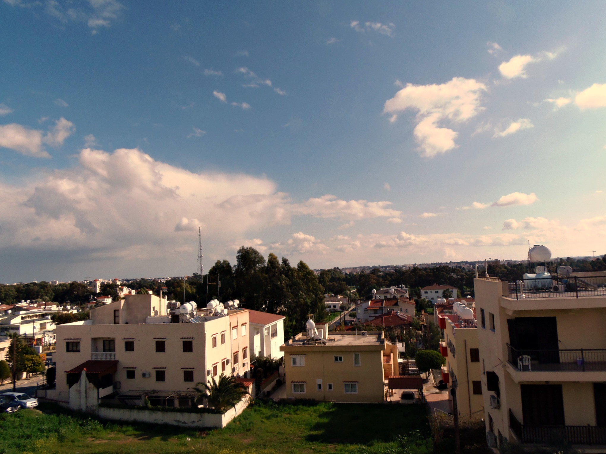 Strovolos district of Nicosia, Cyprus